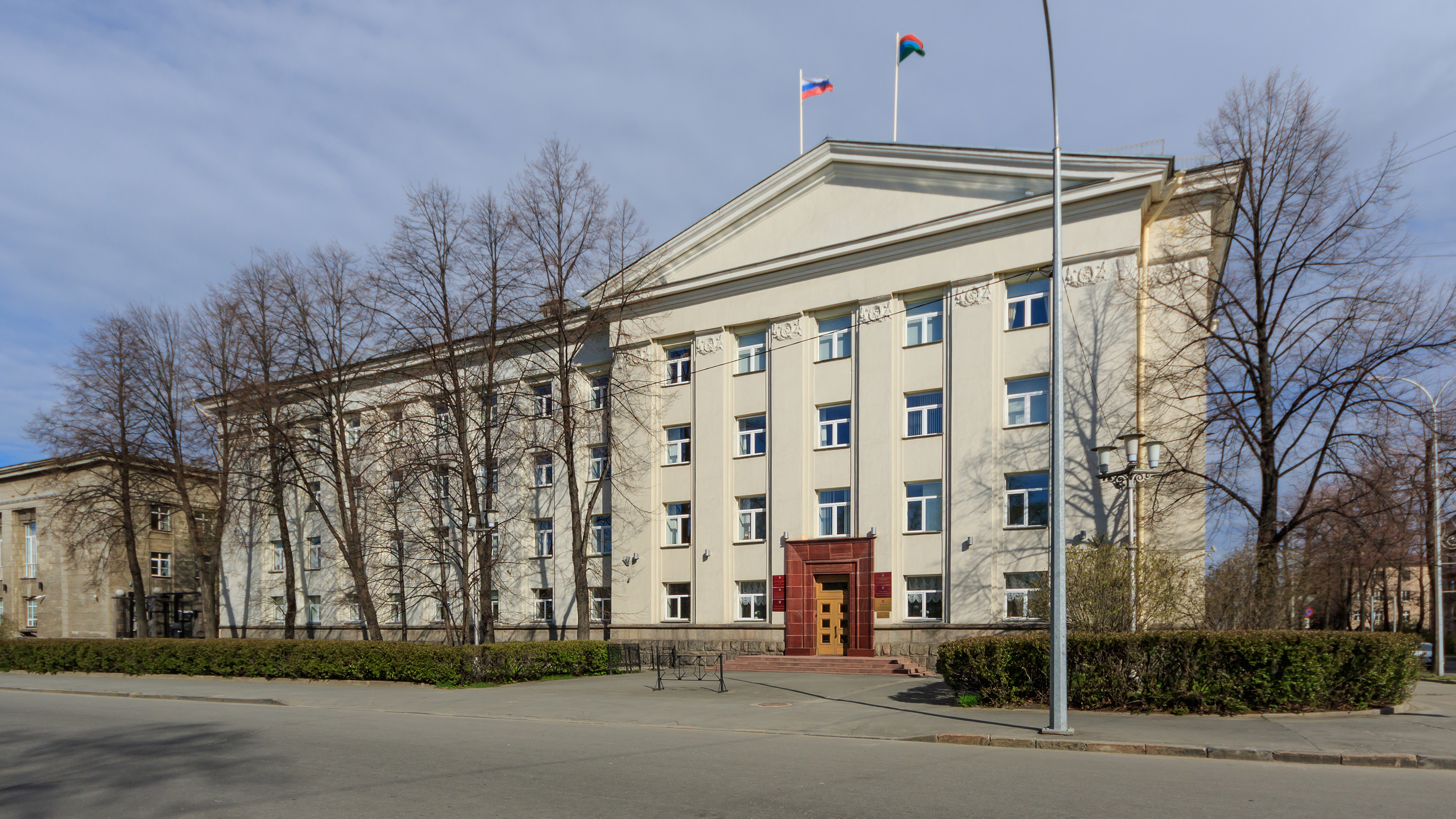 Building of Karelian Parliament in Petrozavodsk, Republic of Karelia (Russia).